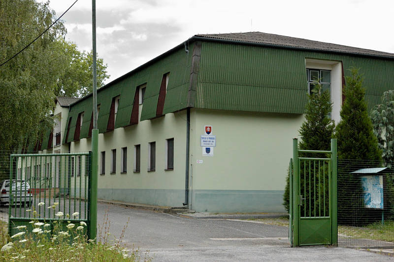 Former barracks of the Czechoslovak border guards in Moravský Svätý Ján, currently it is School in Nature, Moravský Svätý Ján.